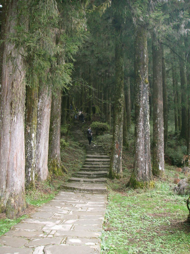 Cryptomeria plantations along the cliff, Alishan, Taiwan